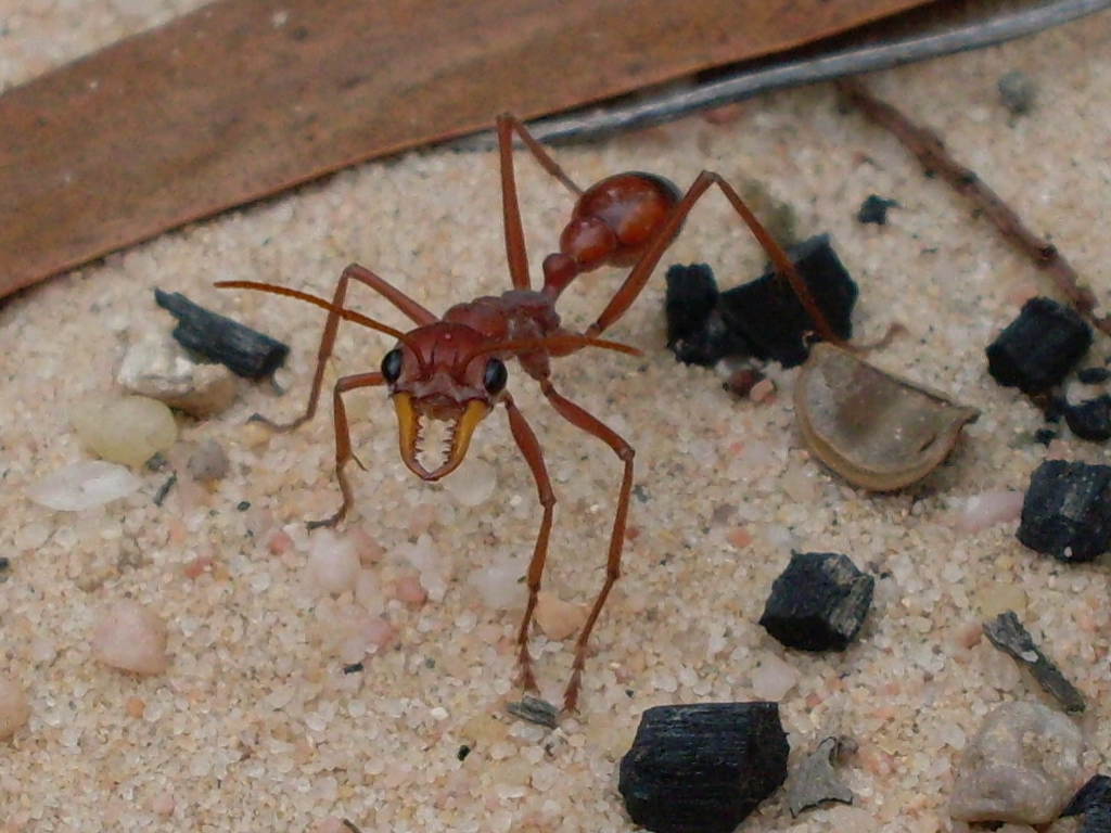 I don't think I would like to get any part of me between the nippers of this red bull ant (Myrmecia gulosa). Munghorn Gap Nature Reserve, NSW Australia, January 2009.